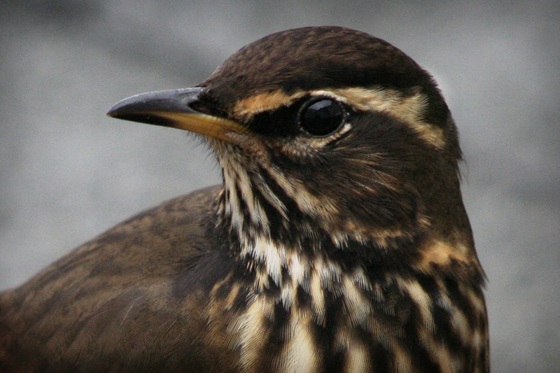 A picture of a Redwing Turdus iliacus I took in Iceland